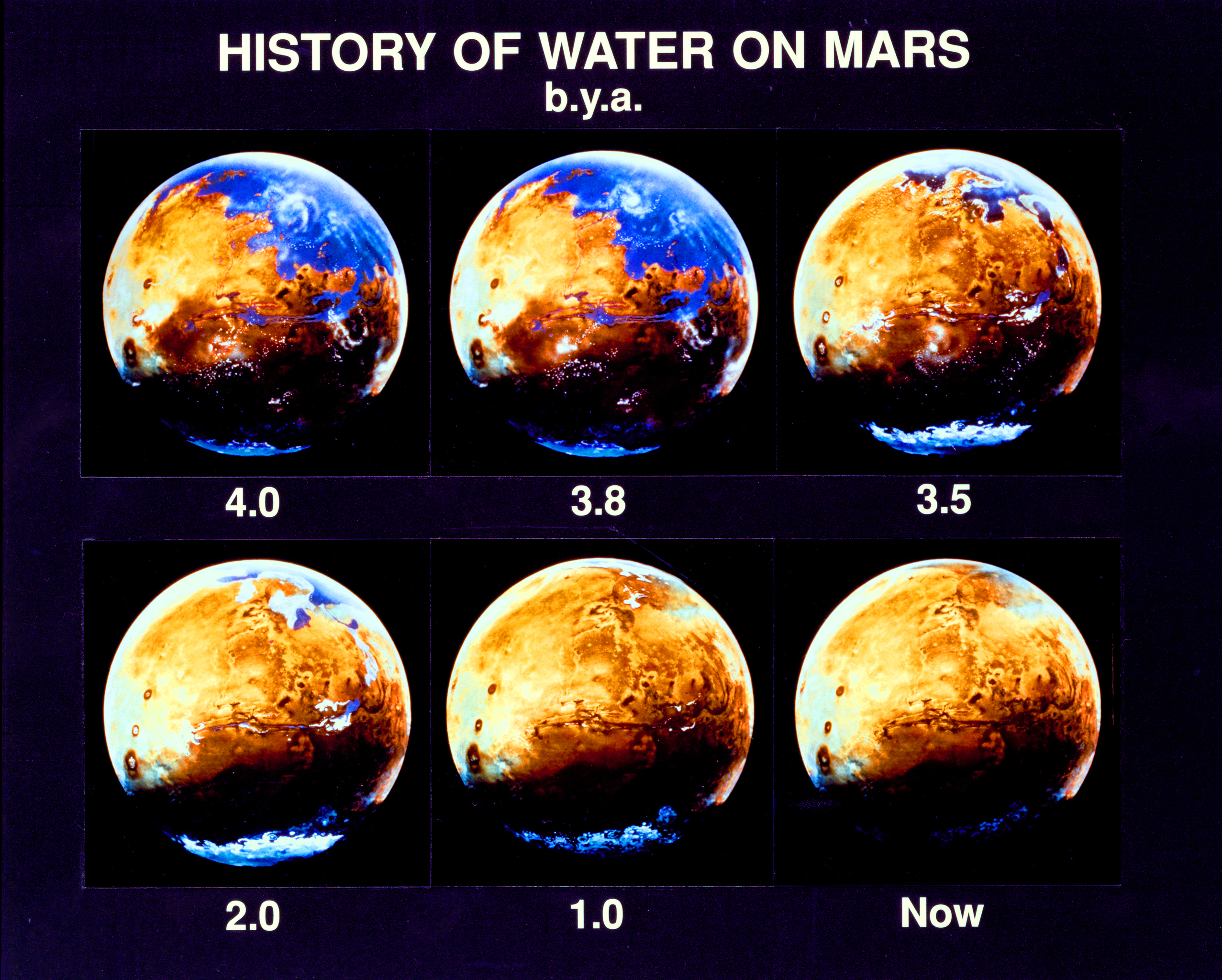 NASA's hypothesised history of water on Mars.